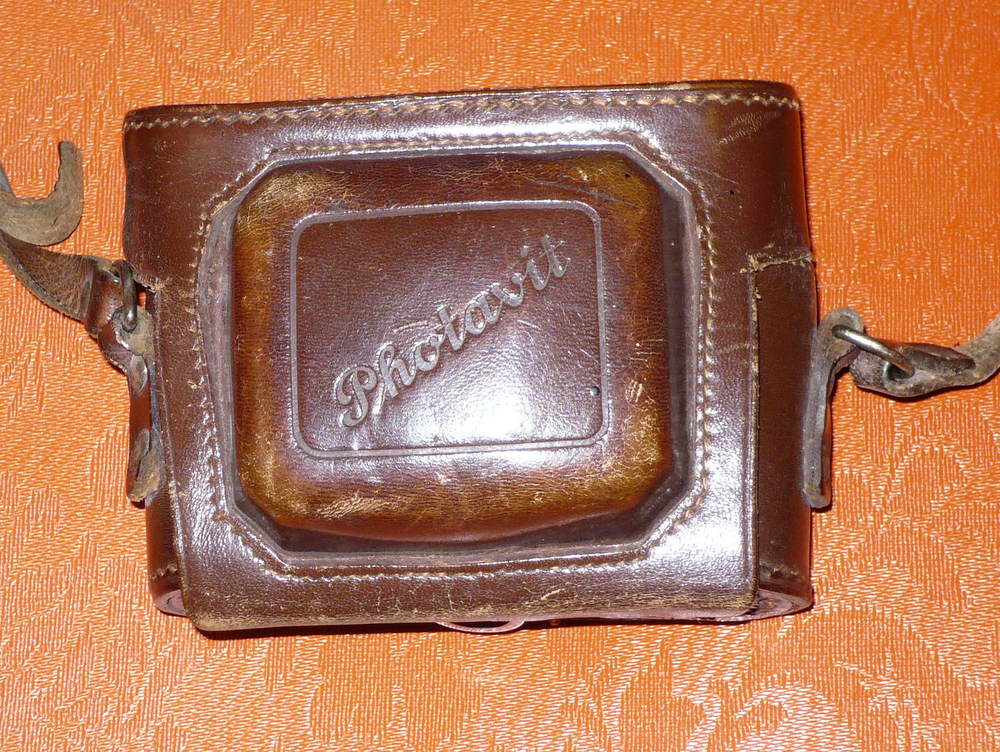 Photavit camera leather case